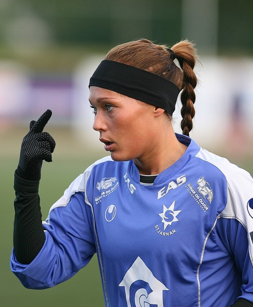 Ásgerður Stefanía Baldursdóttir of Stjarnan in a 2008 match against KR.